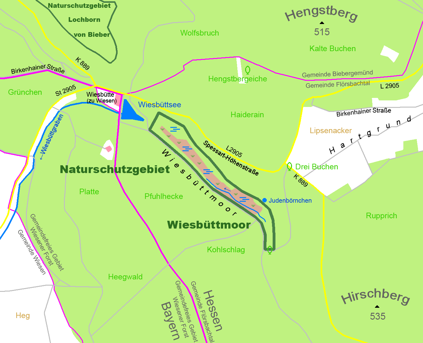 Map of nature reserve Wiesbüttmoor in Spessart near Flörsbachtal, Hesse Settlement area Forest Grassland, Meadow Body of water Mire Border of nature reserve Main street Agricultural road and Forest road State border Mountain 399 Above sea level Fink Field name Spring Natural monument